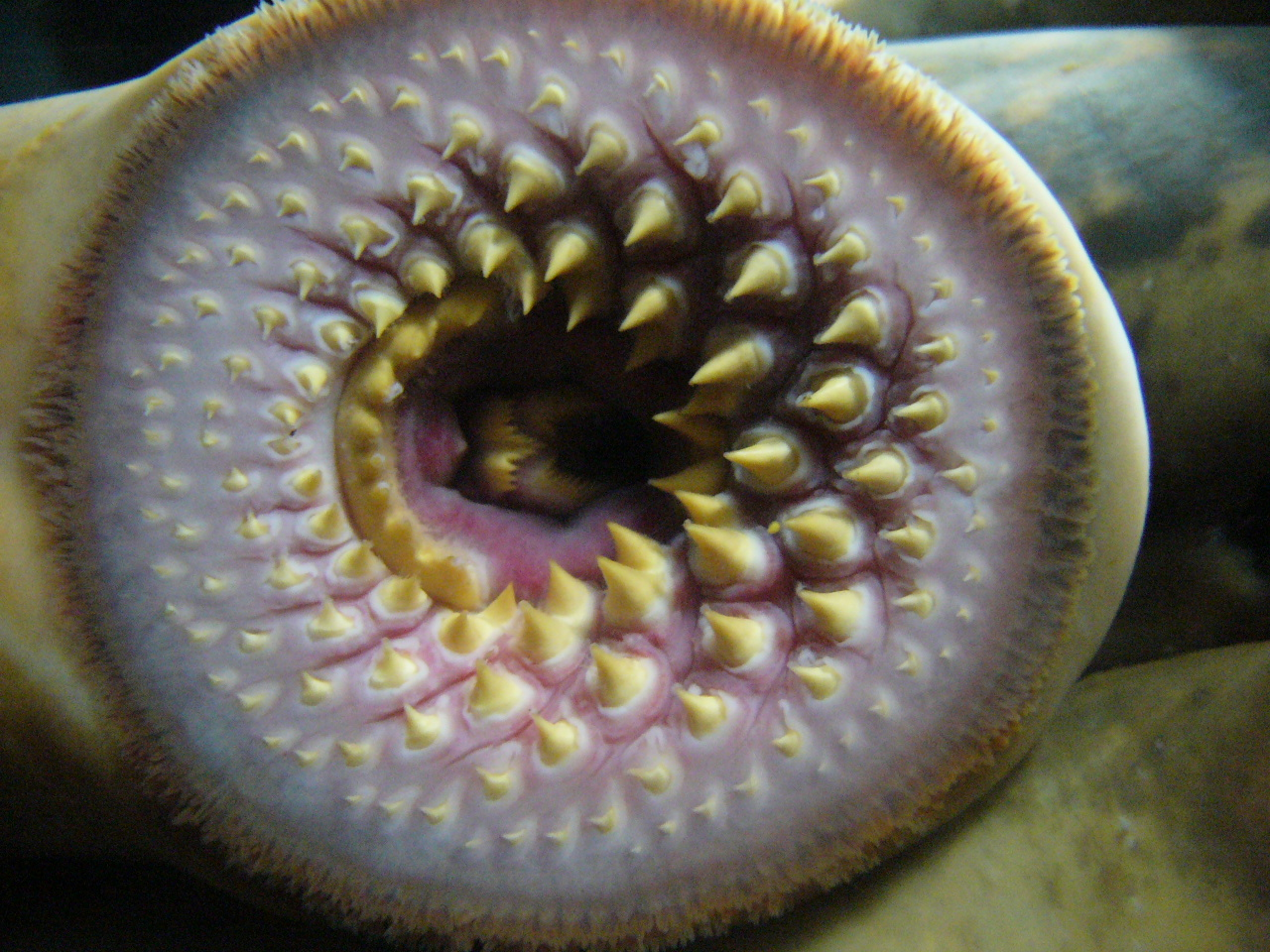 Petromyzon marinus (Lamprey) mouth in Sala Maremagnum of Aquarium Finisterrae (House of the Fishes), in Corunna, Galicia, Spain.